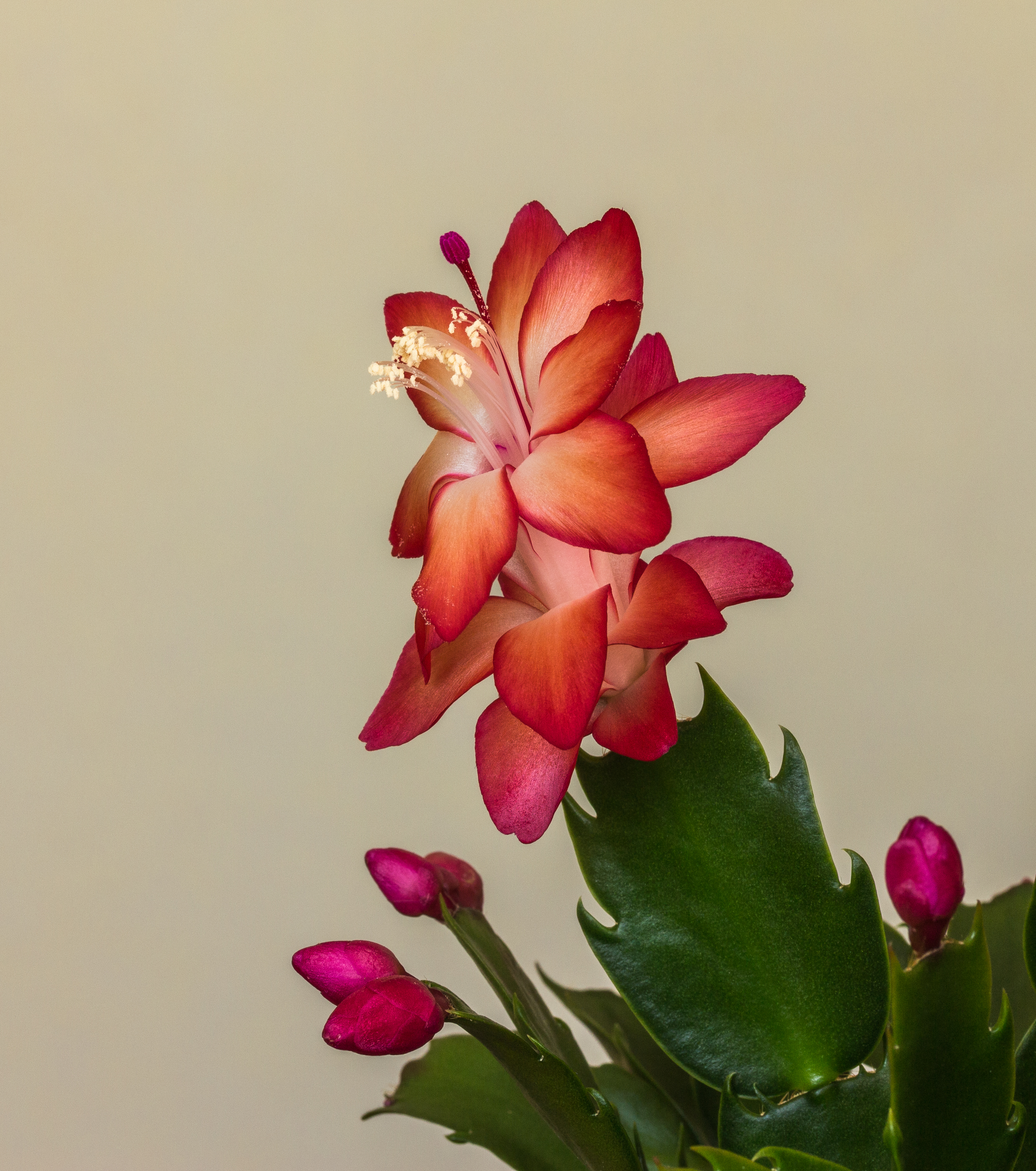 Schlumbergera, Christmas cactus. Flowering houseplant in the Netherlands.